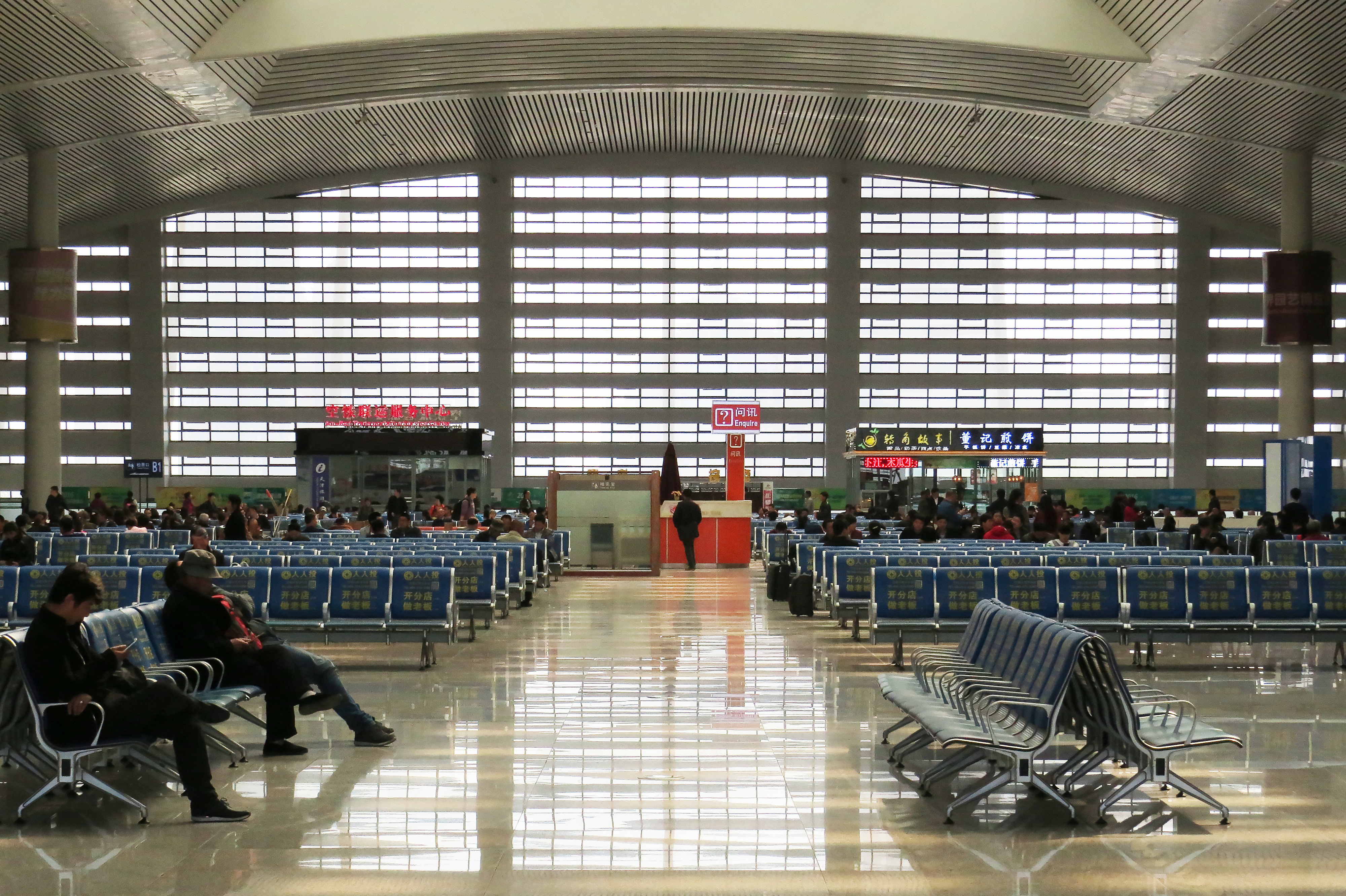 HSR Phoenix - that's its brand.